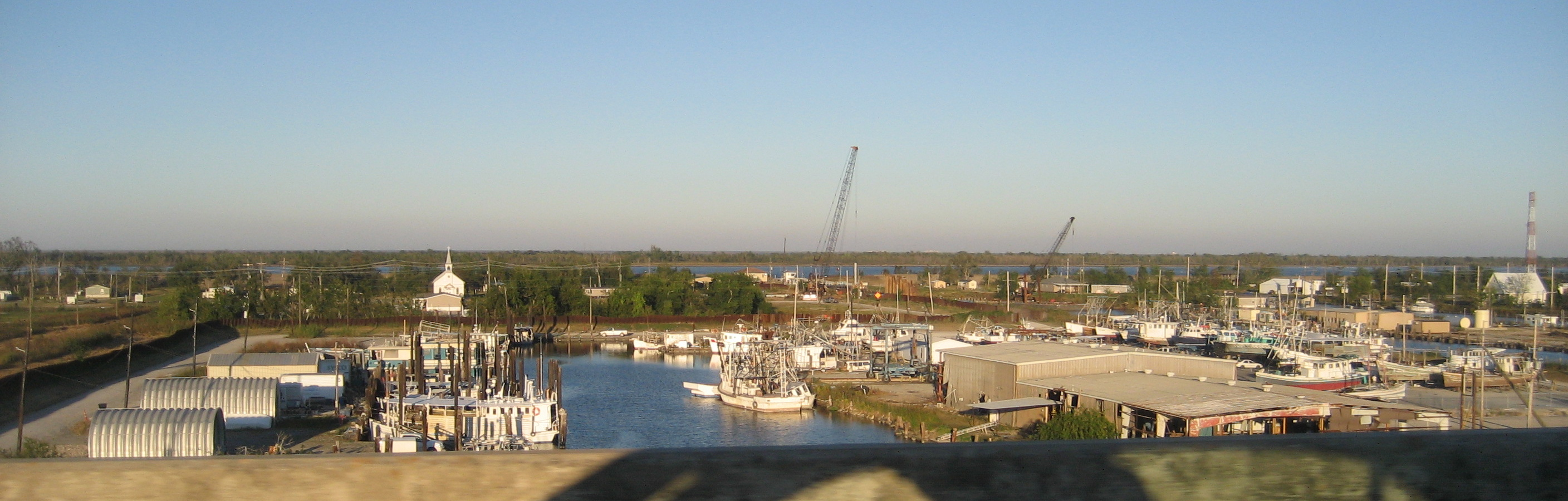 Plaquemines Parish, Louisiana. View from Empire High Bridge, looking East (towards the Mississippi River). Part of town of Empire upriver from canal seen.